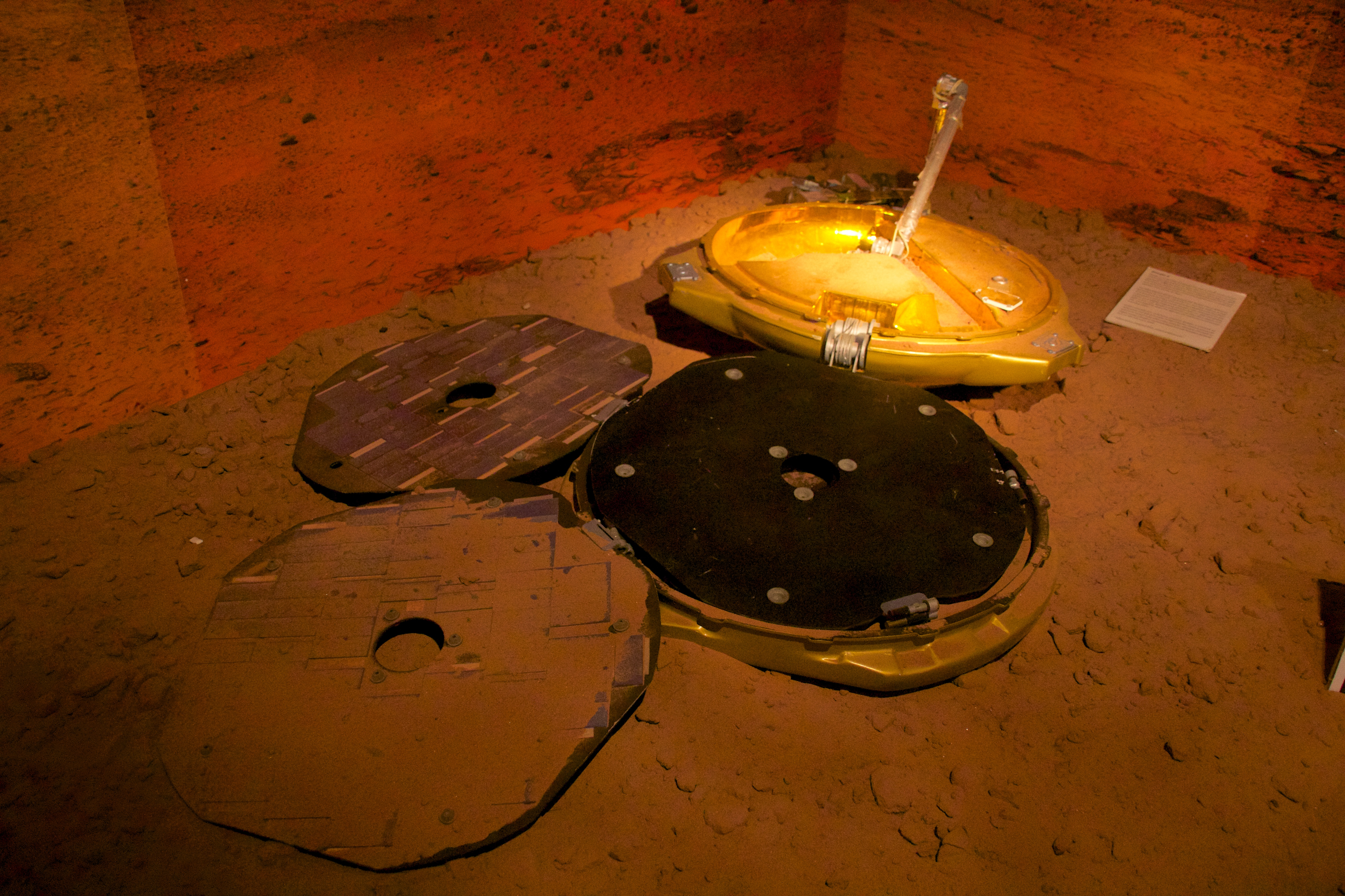 Beagle 2 model at Liverpool Spaceport.